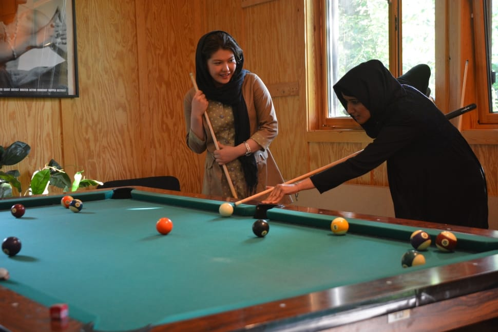 Women playing pool